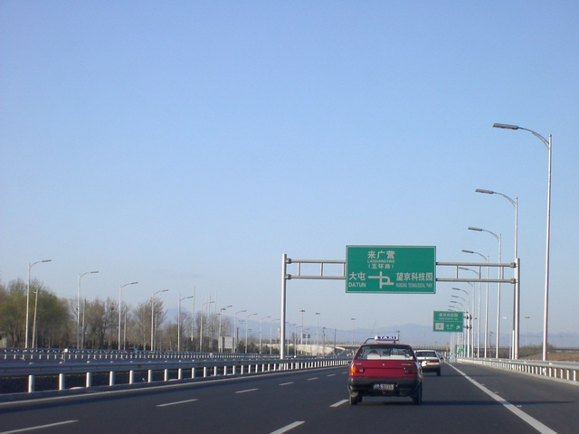 Jingcheng Expwy, Beijing